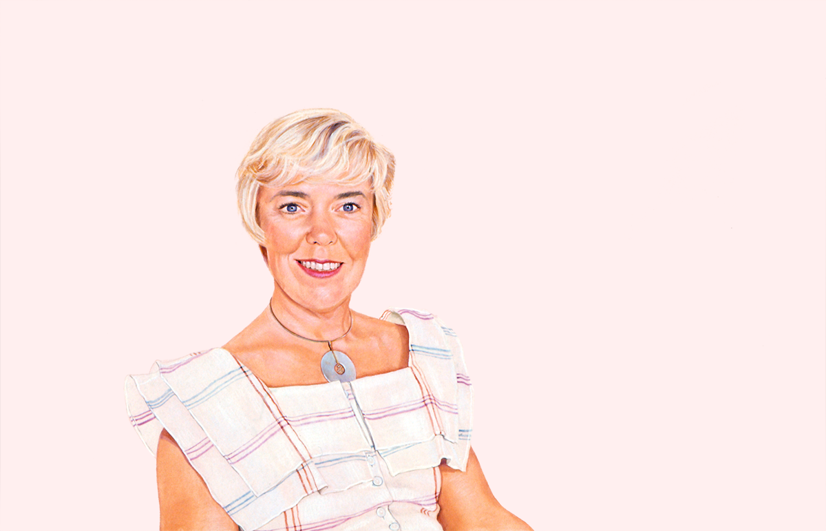 This is a 1984 portrait of Suzanne Muchnic by Sylvia Shap. It is part of Sylvia Shap's Art World Women series.